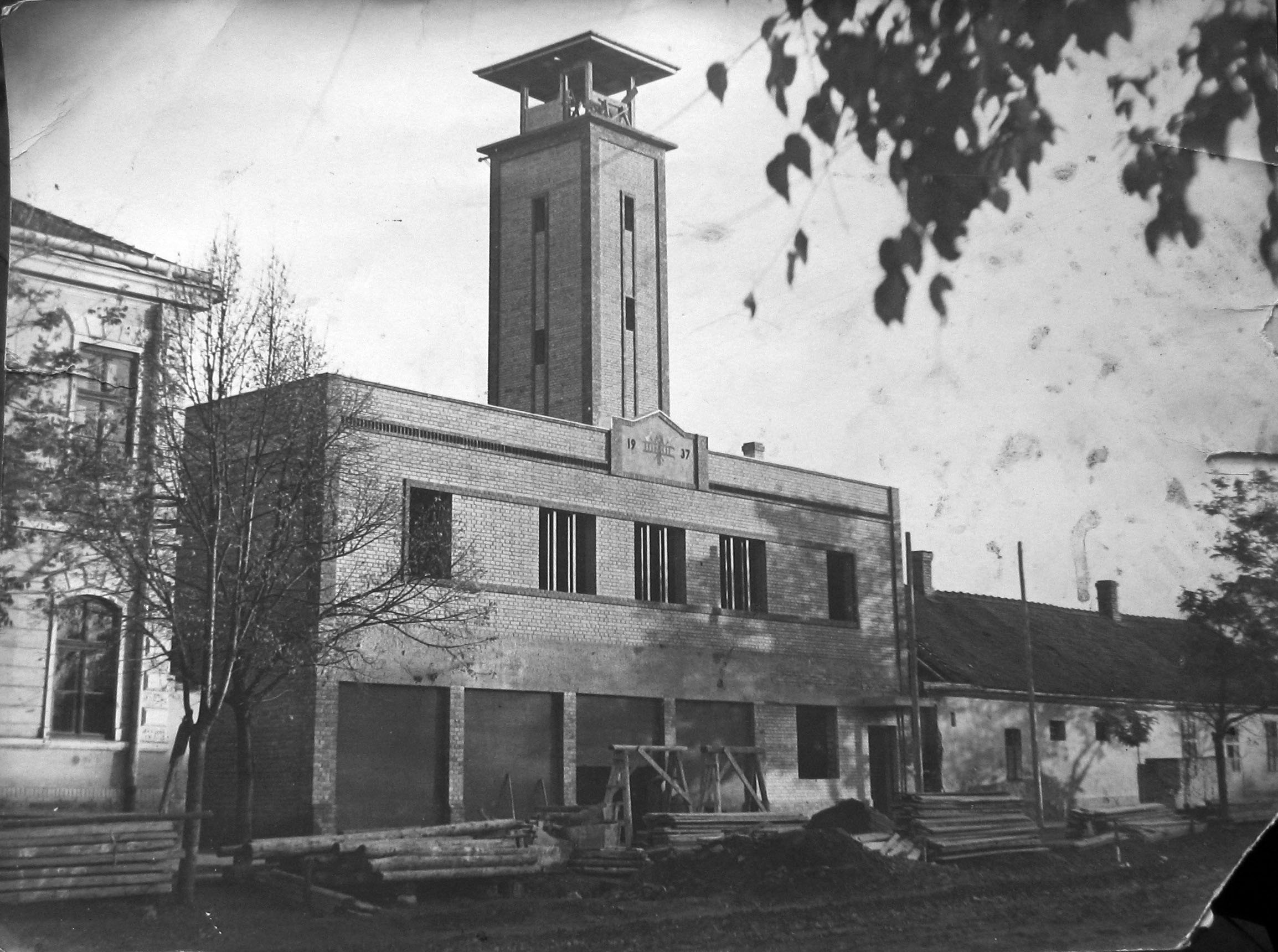 Firefighting building, 1938th year